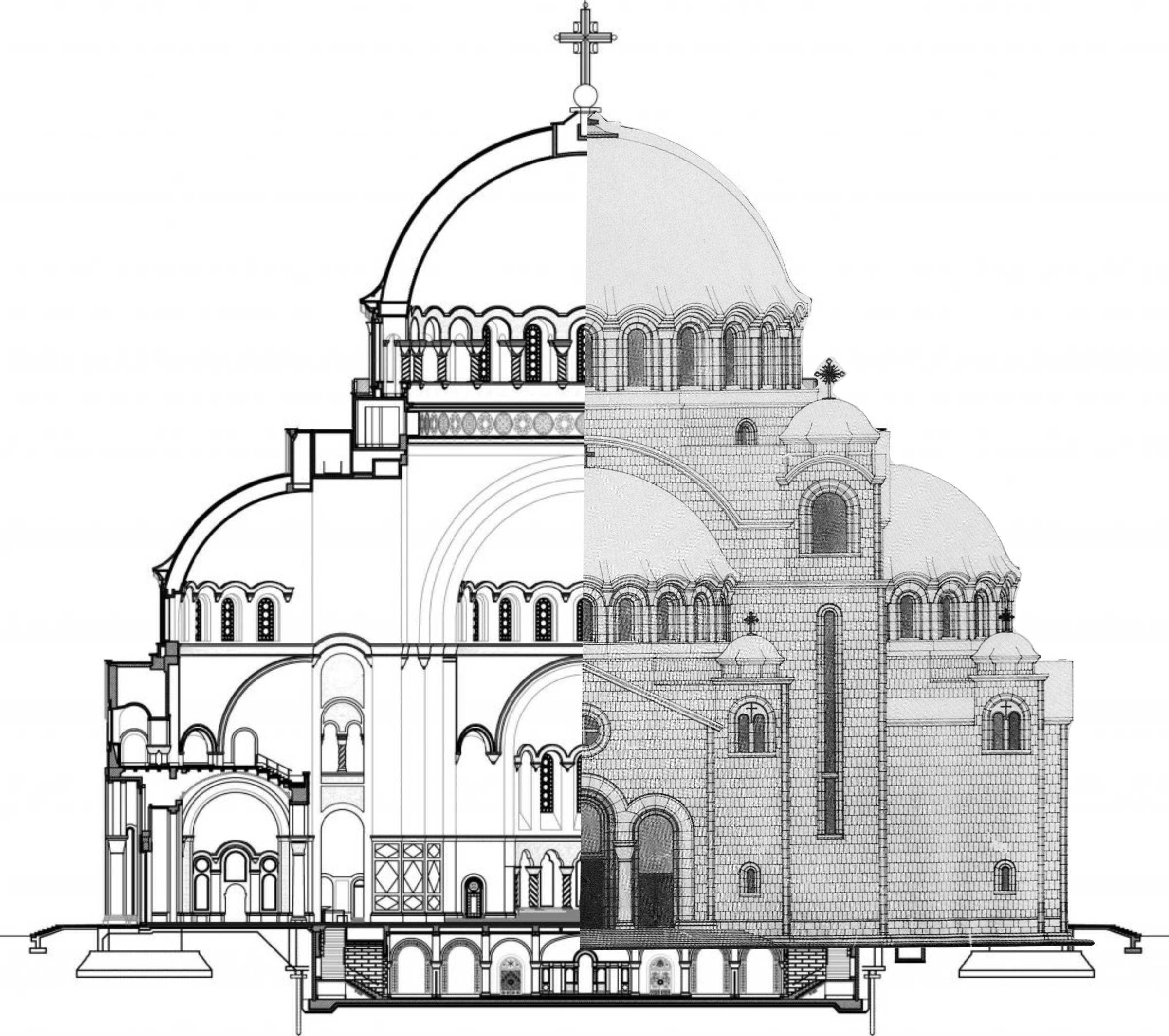 Composite section plan Church of Saint Sava Belgrade